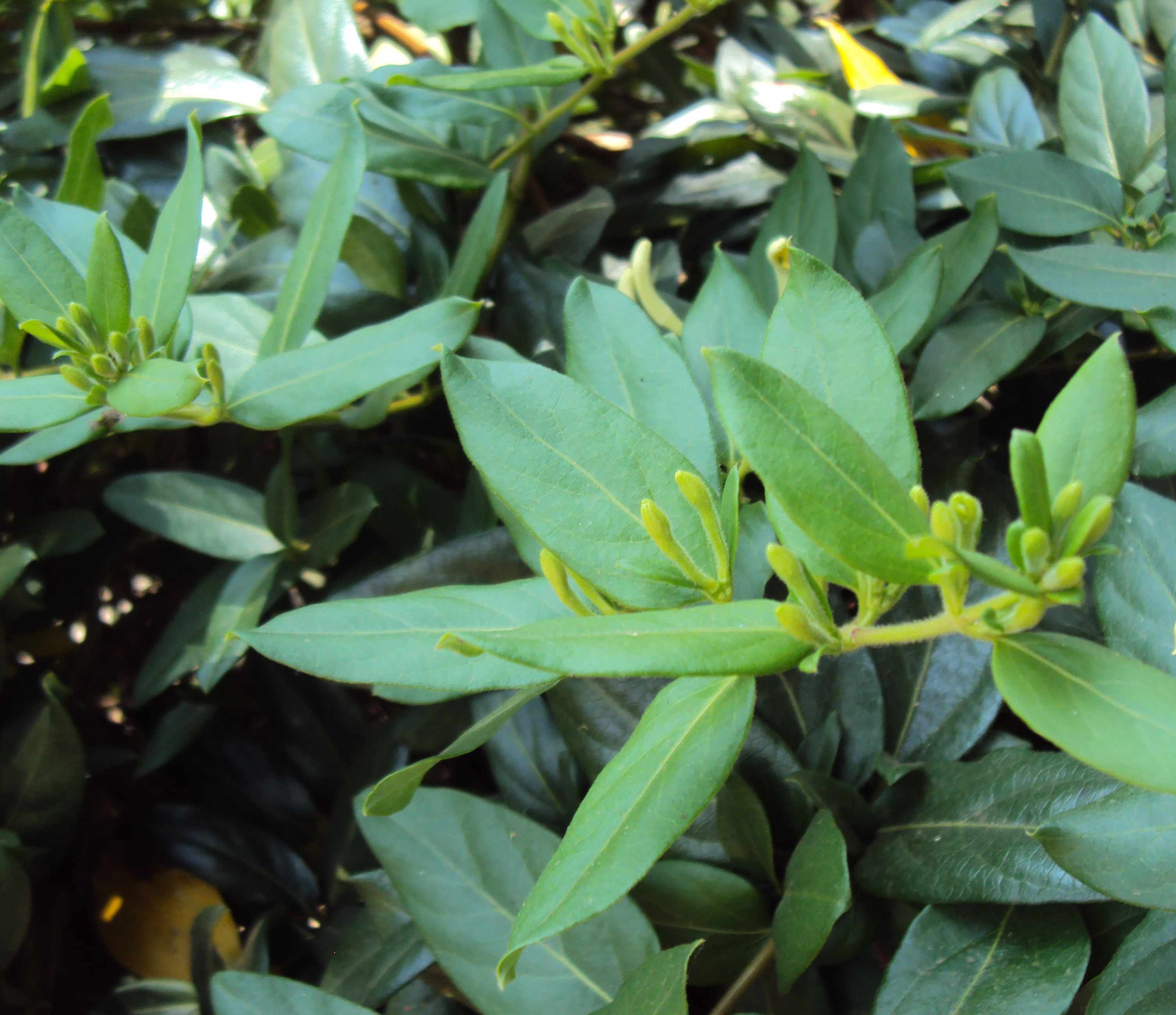 Lonicera japonica